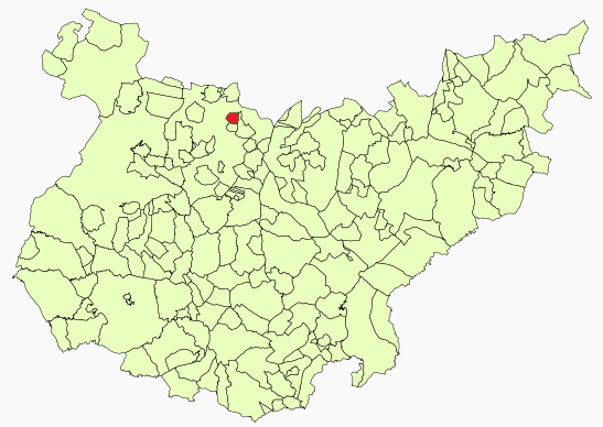 Aljucén